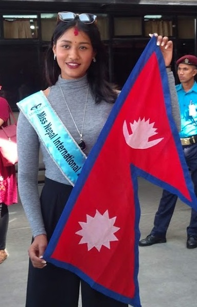 Ronali Amatya at Tribhuvan International airport on her way to represent Nepal on Miss International pageant 2018, Japan.